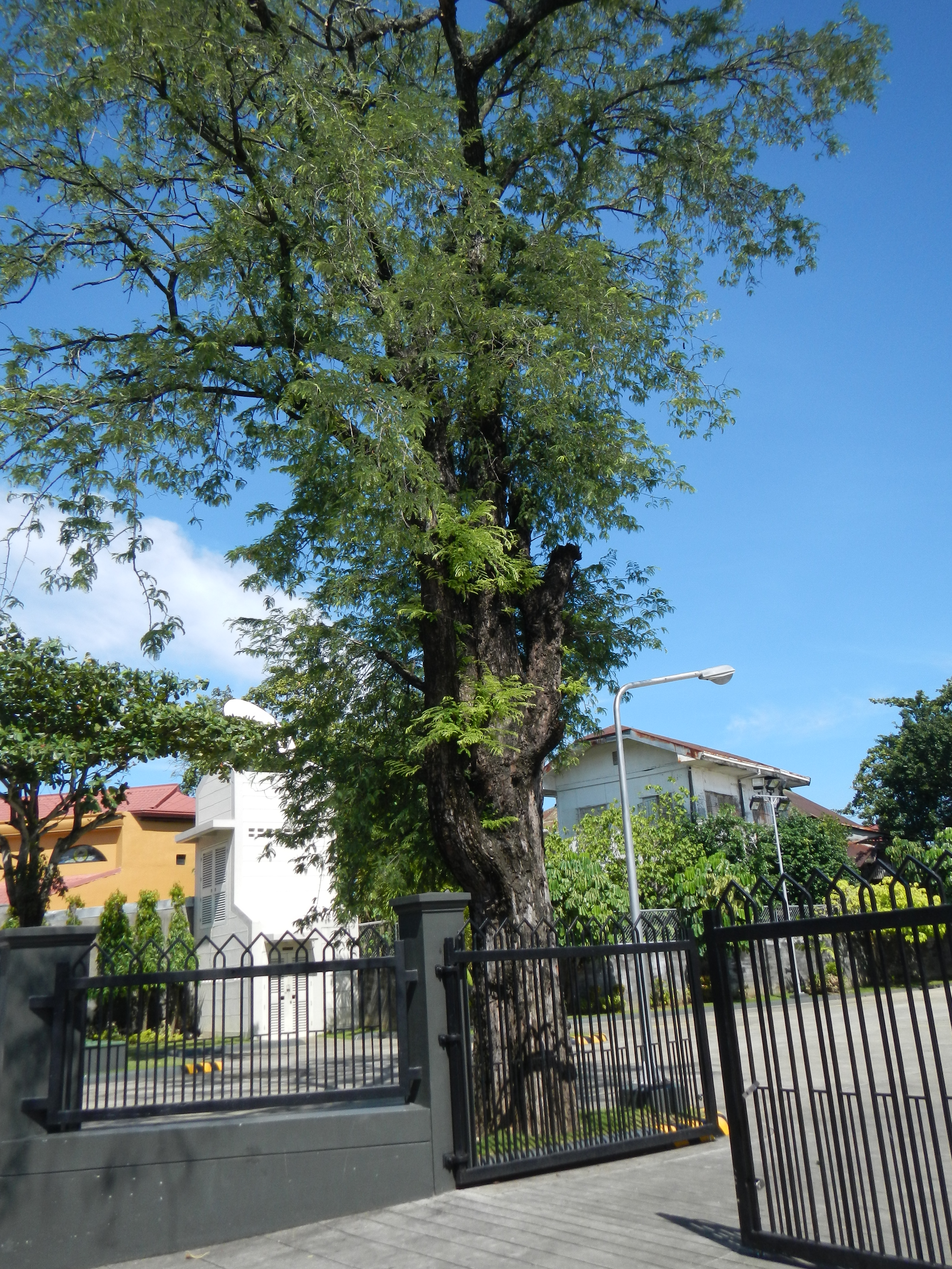 The Church of Jesus Christ of Latter-day Saints in Bulacan Malolos City, Barangay Santo Niño, Malolos City, Bulacan in the center thereof is Tamarindus indica beside Women of Malolos Marker (Ancestral House-School).